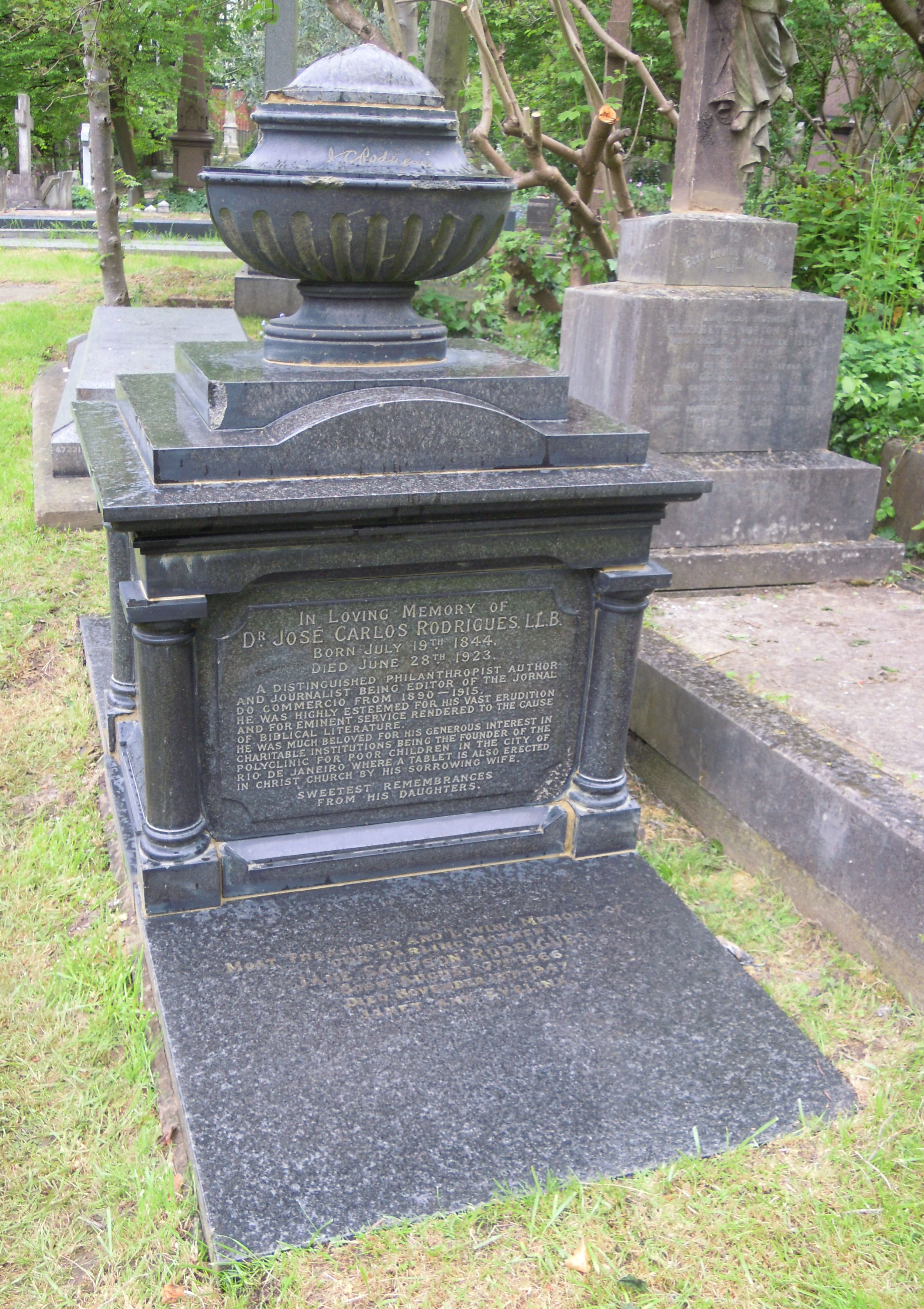 The grave of José Carlos Rodrigues at Highgate Cemetery